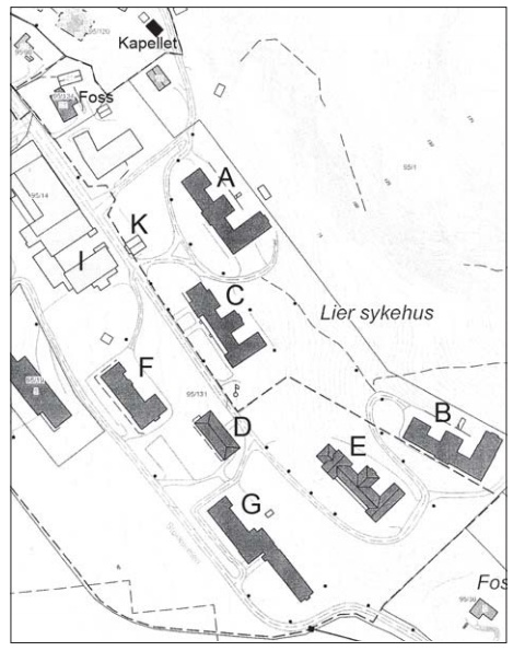 Lier Sykehus Map